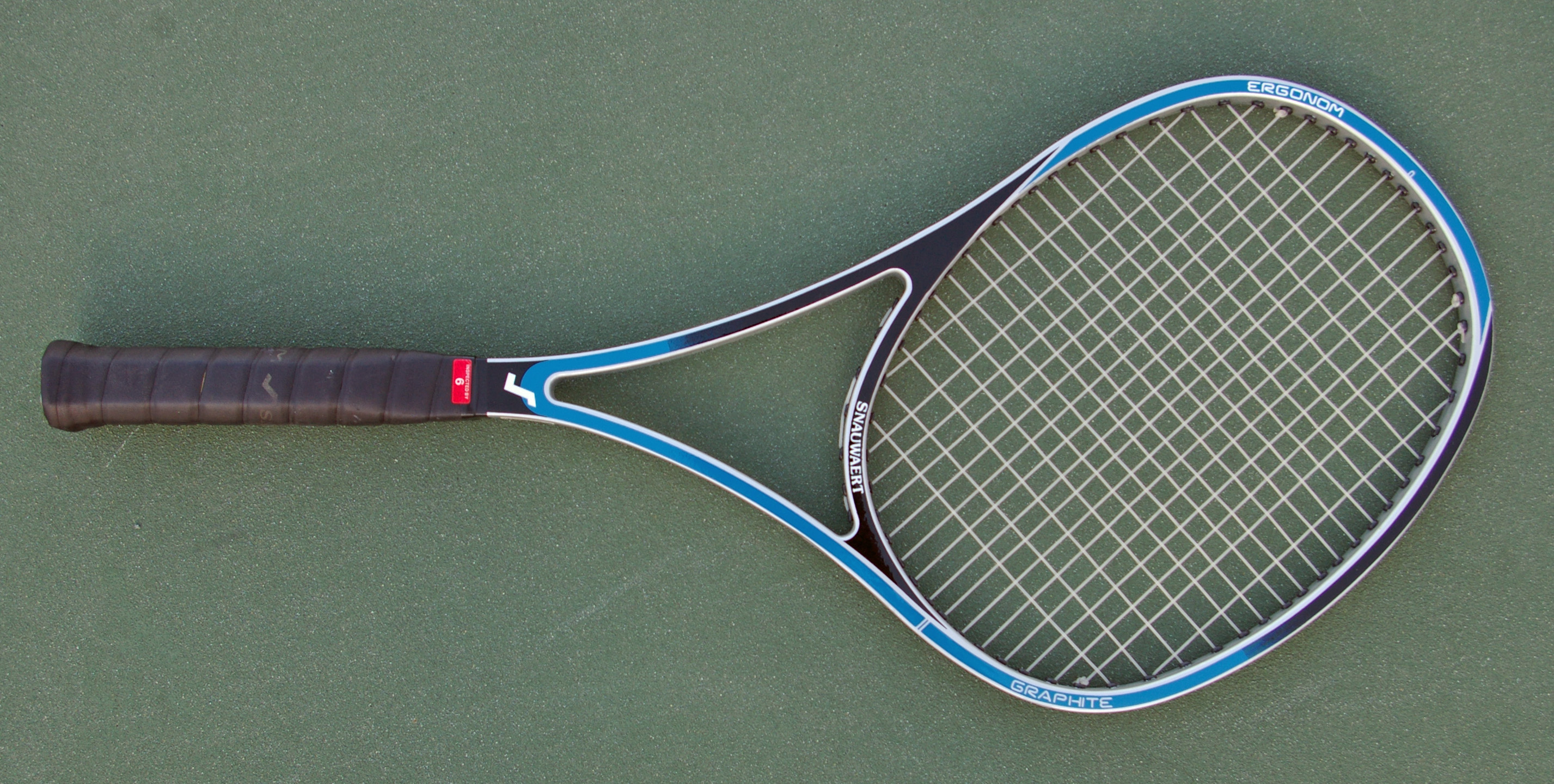 Snauwaert Ergonom tennis racquet